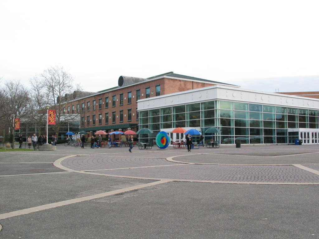 Much better view of the Student Activity Center at SUNY Stony Brook